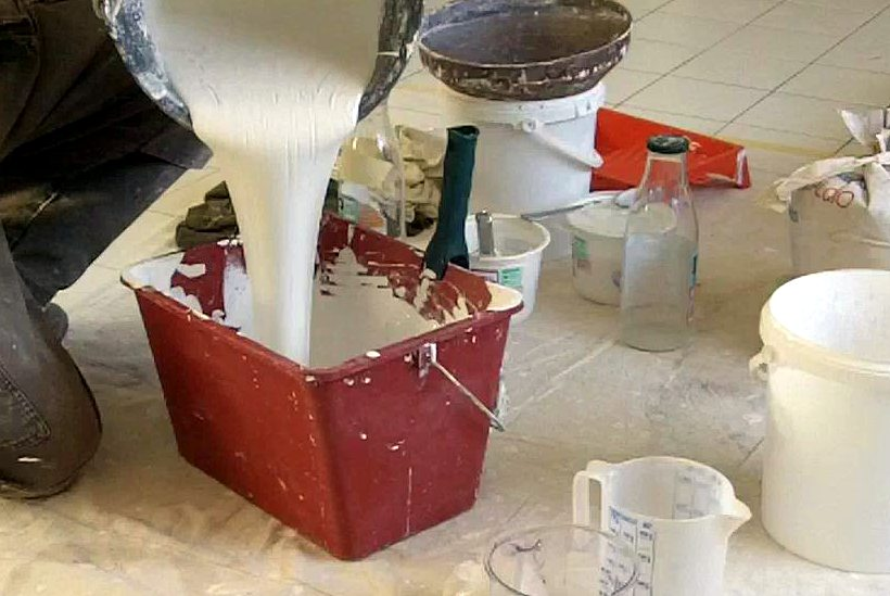 Manufacturing natural paint cheese. painting using Fromage frais, also known as Quark, an old technique for "natural" painting.